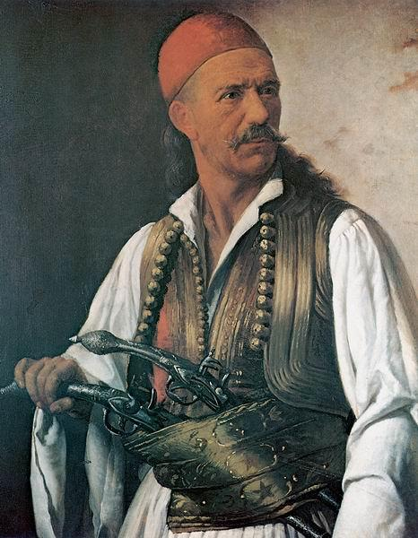 Dimitrios Makris – (1772 - 1841) Greek Fighter of the 1821 Revolution